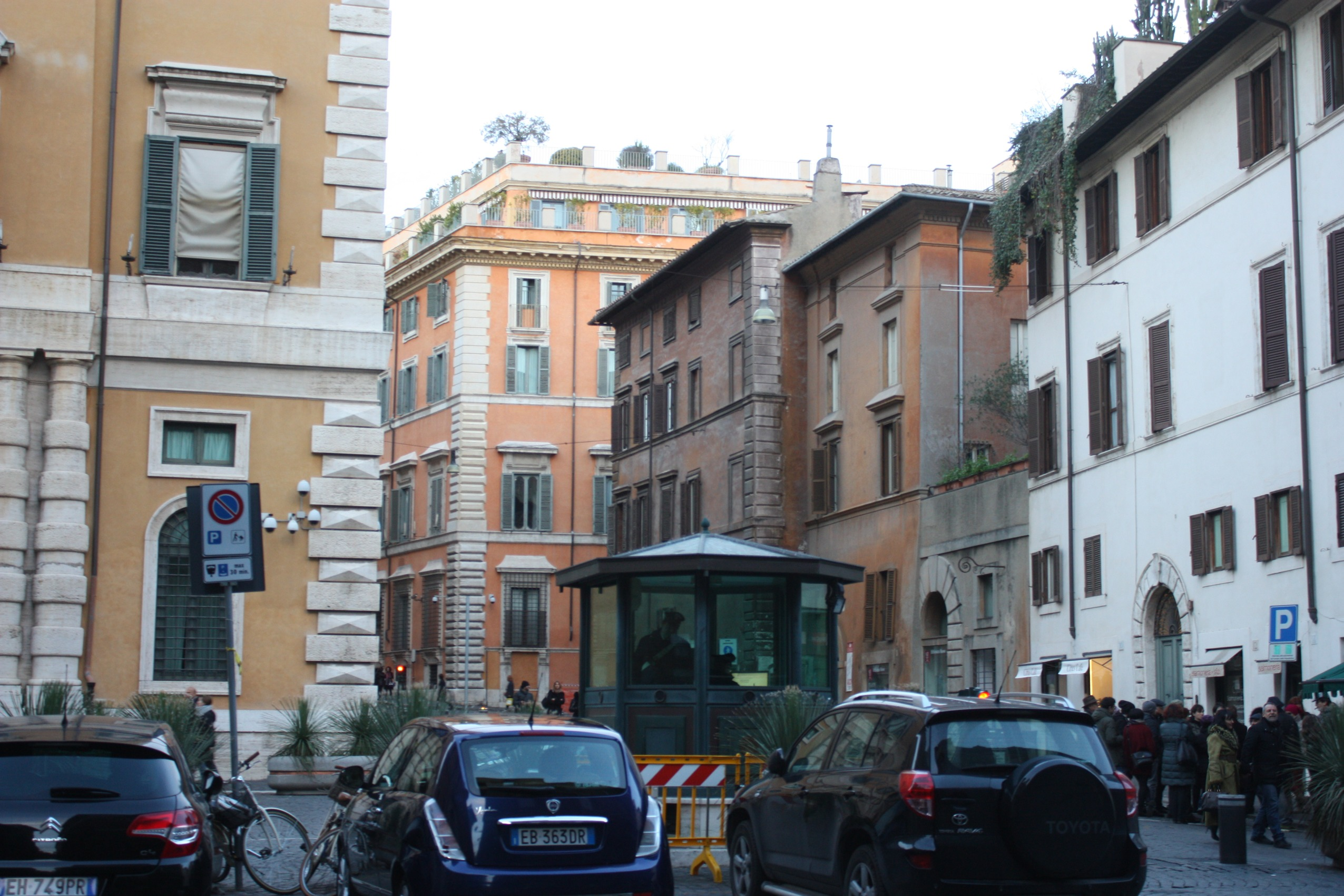 Rome, the street Via della Dogana Vecchia, view to the Palazzo Giustiniani